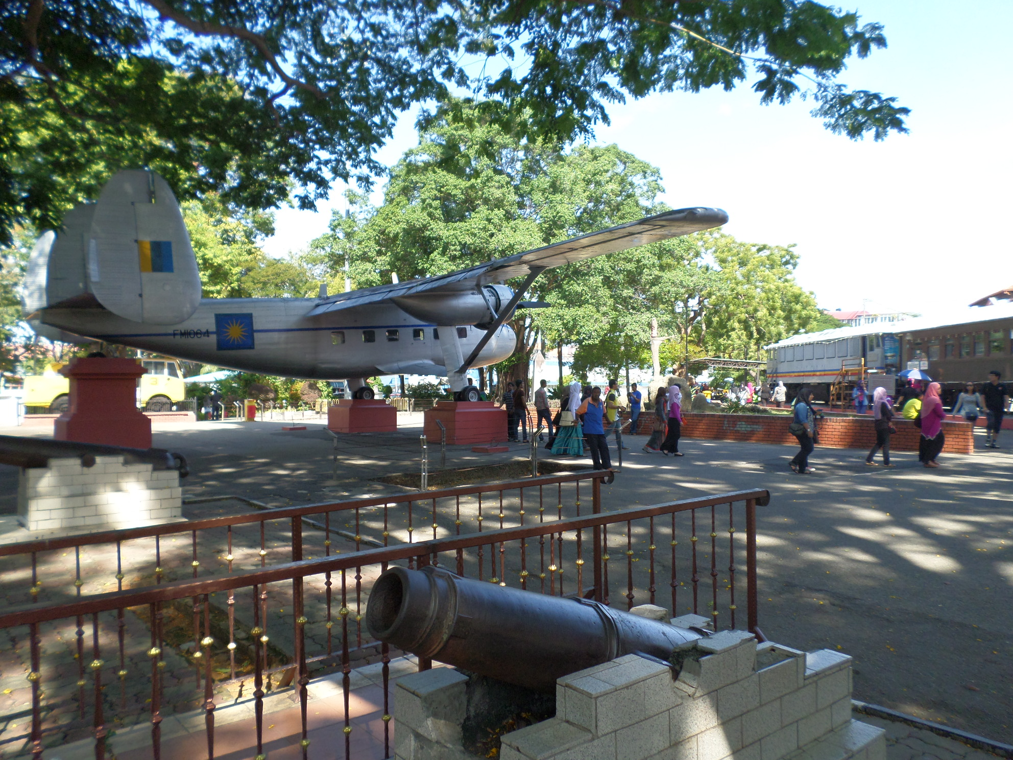 Transportation Area, People's Museum, Malacca, MalaysiaBahasa Melayu: Muzium Rakyat, Melaka, Malaysia